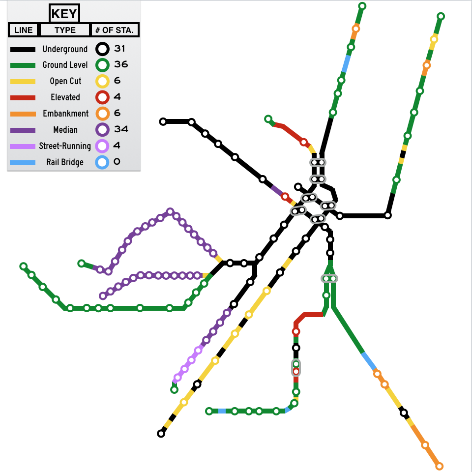 Types of track on the MBTA system